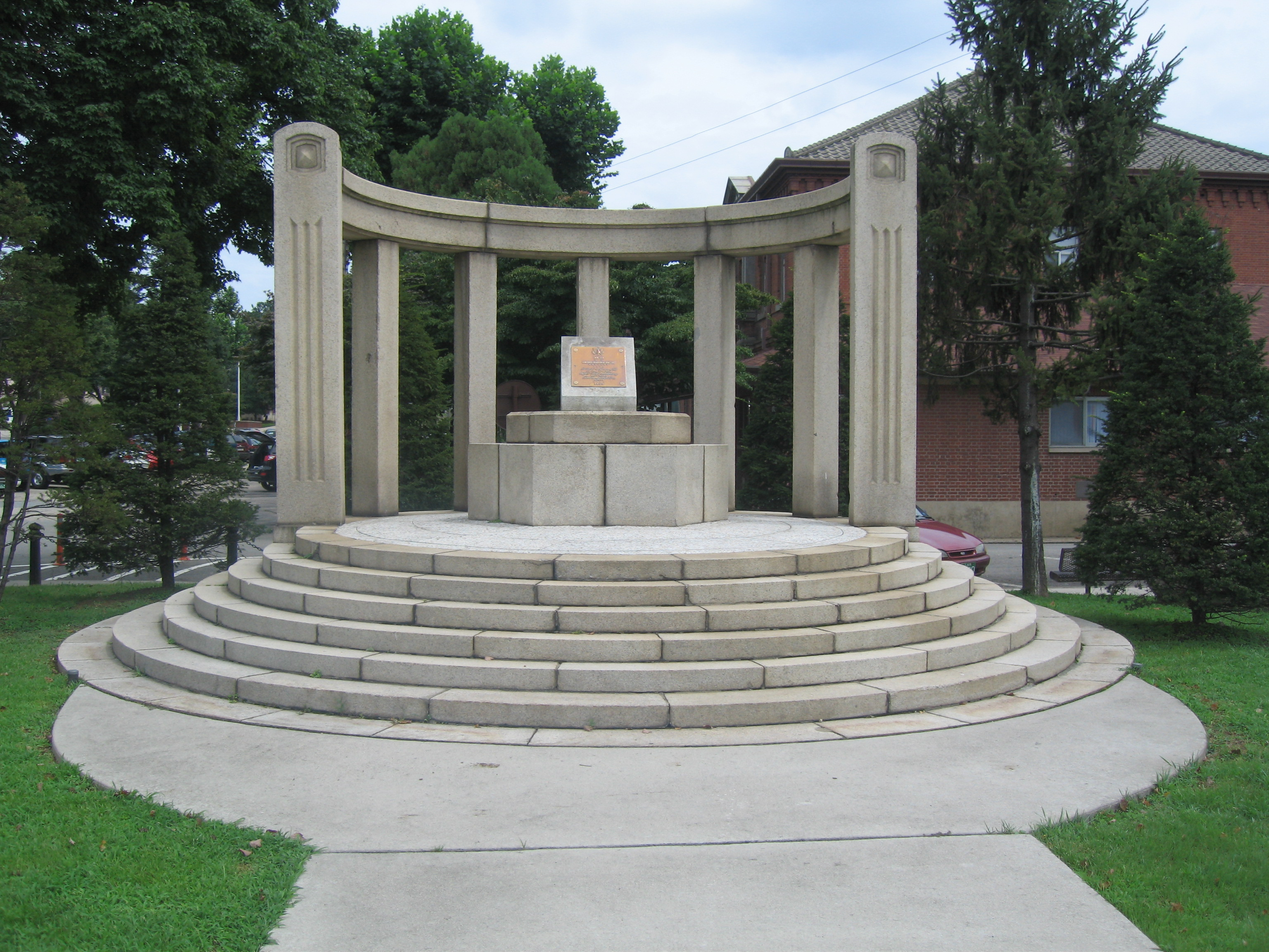 Eighth United States Army memorial at the corner of UN Boulevard and 8th Army Drive, United States Army Garrison Yongsan, Seoul, South Korea. Plaque on memorial says: Yong San Headquarters Eight United States Army Dedicated to the men of the Eighth United States Army Killed in action in Korea 1953